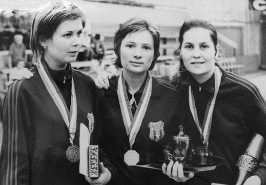 Olga Orban (left), Ecaterina Stahl (center)